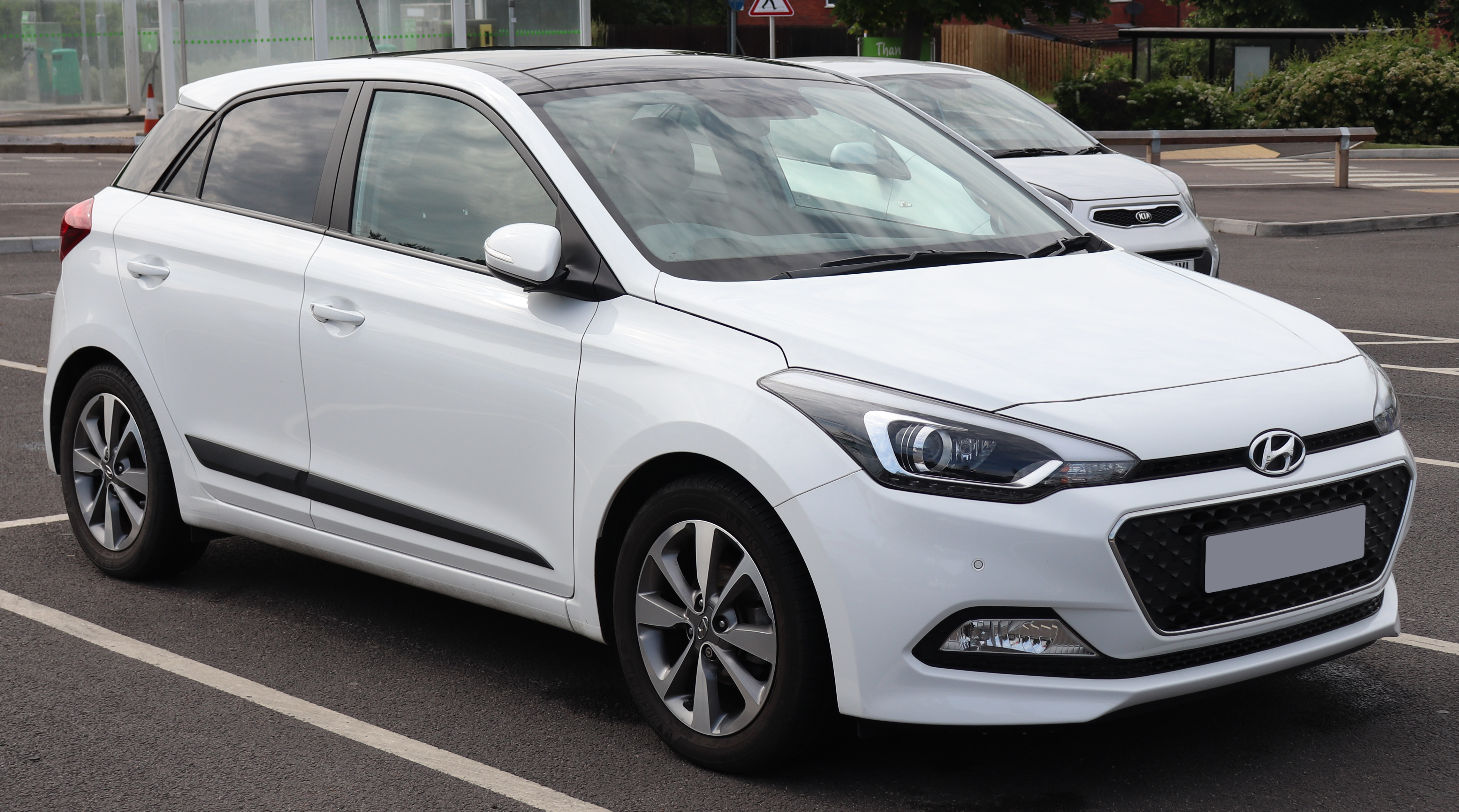 2015 Hyundai i20 Premium SE MPi 1.4 Front Taken in Leamington Spa